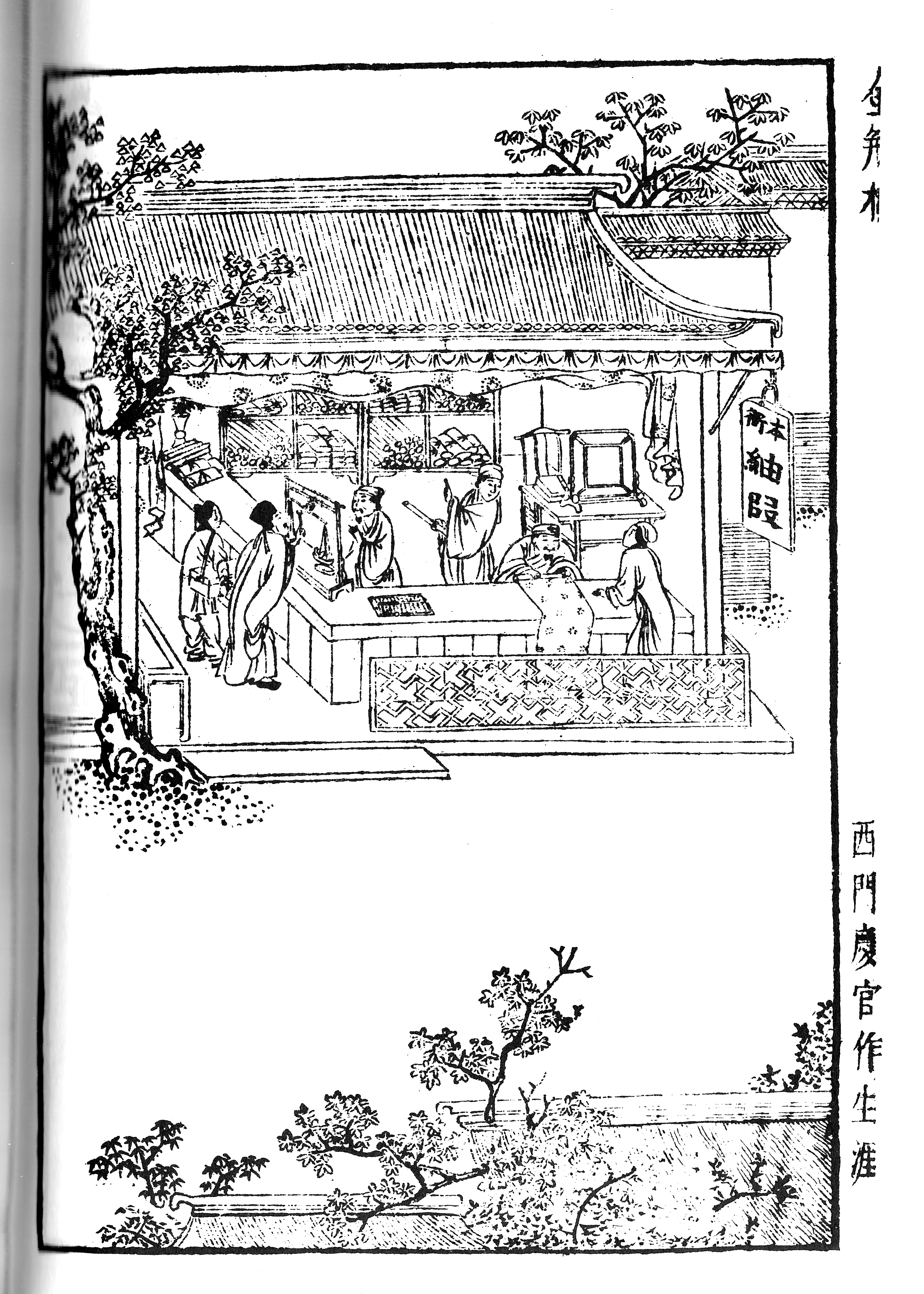 suanpan in Ming dynasty novel